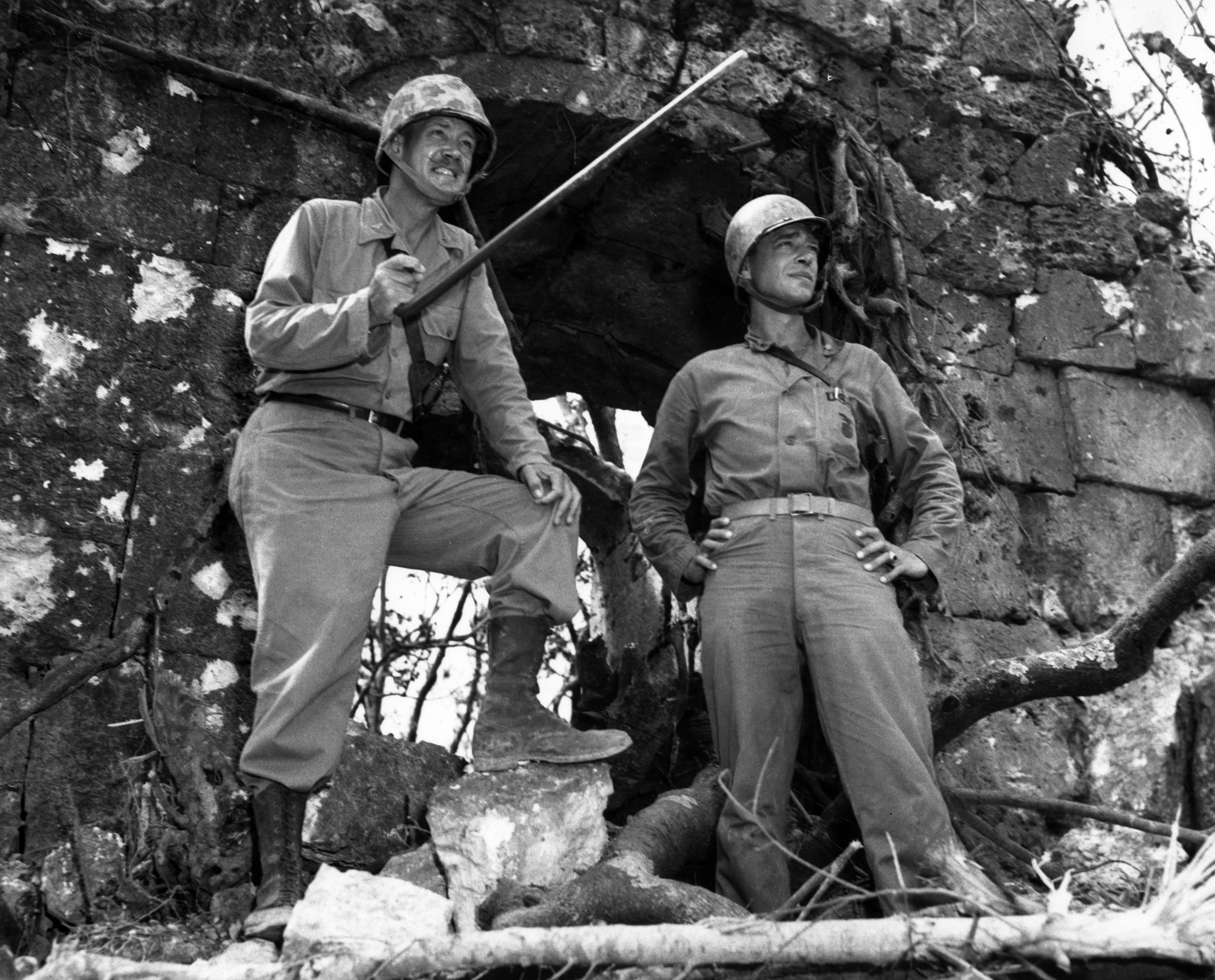 Colonel Harold C. Roberts, Commanding Officer, 22nd Marines, of Coronado, California, and (right) Lieutenant colonel Clair W. Shisler, Commanding Officer, Third Battalion, 22nd Marines, of Canton, Ohio. Standing by archway to Tomigusuki Castle, Oroku Peninsula.